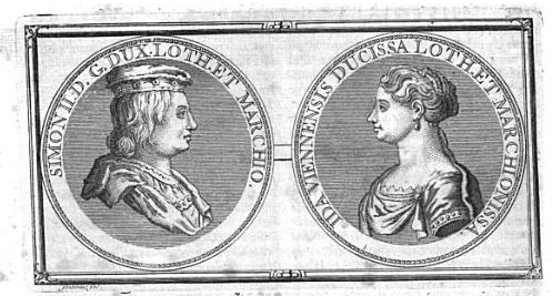 Simon I Iand his wife Ida